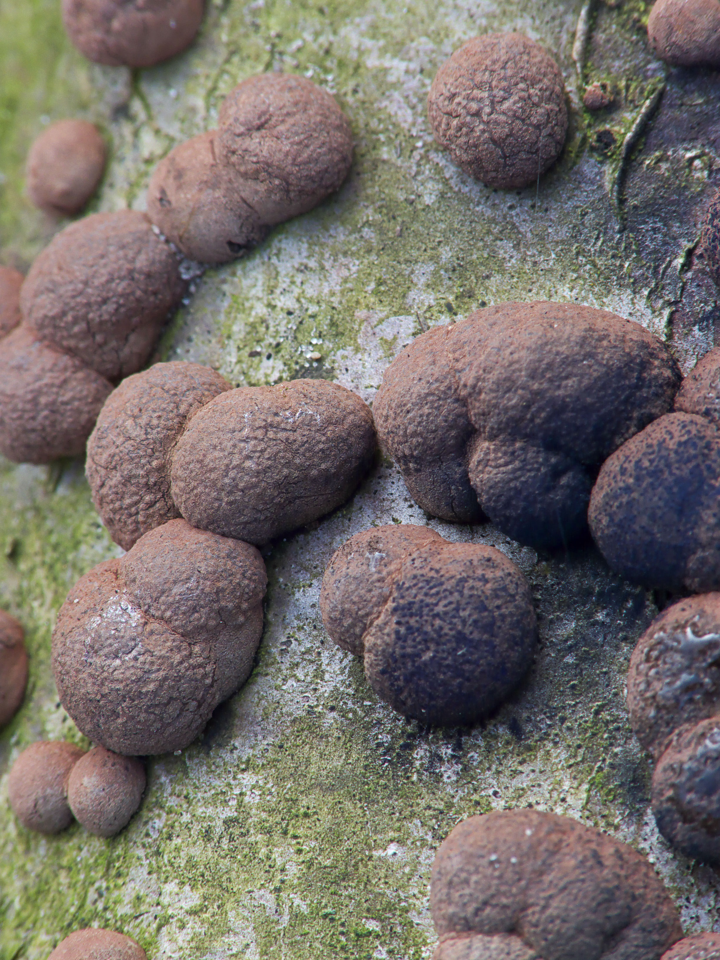 Hypoxylon fuscum at Corylus avellana